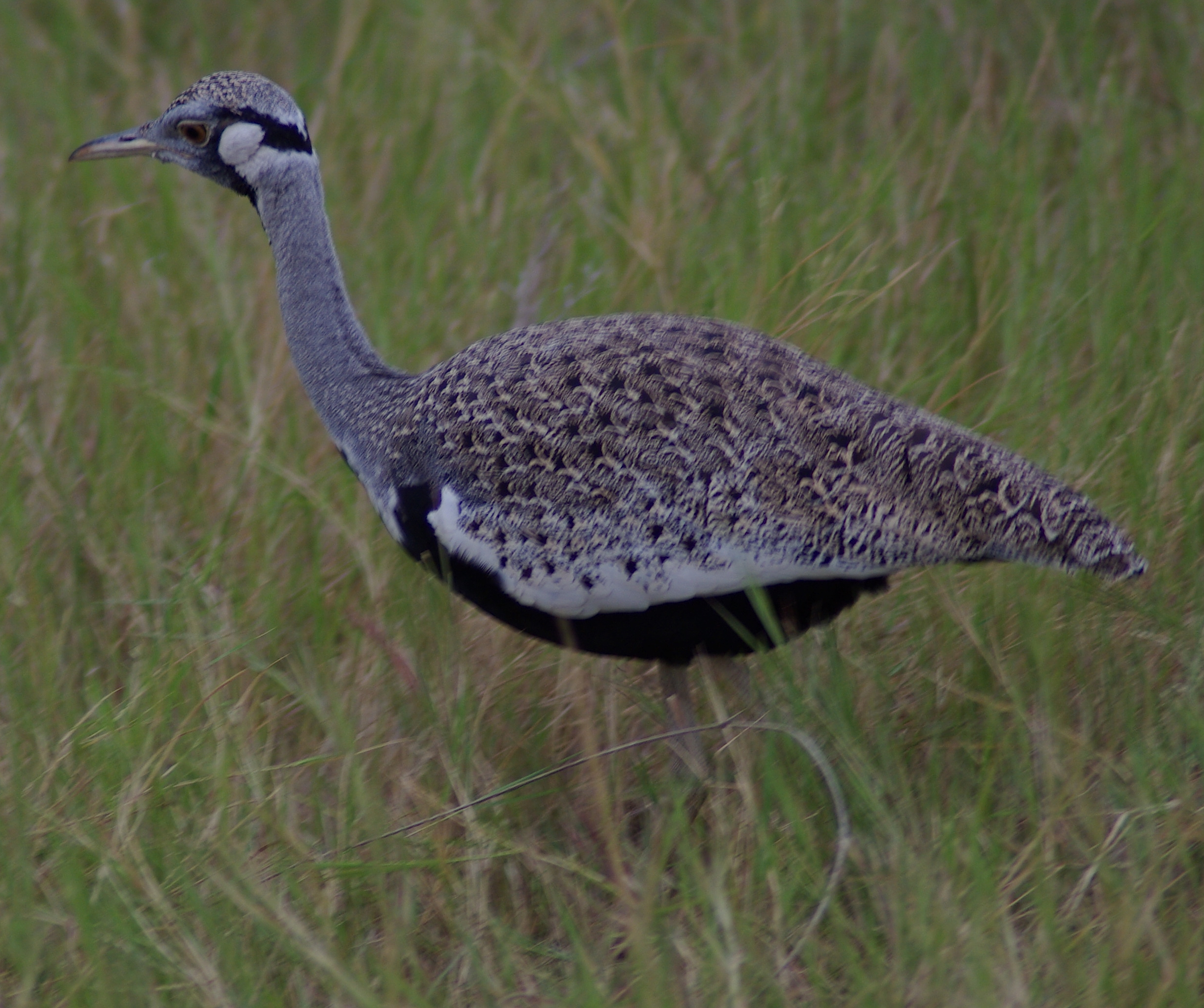 Male Hartlaub's Bustard in Kenya. Sharpened a little. Time stamp is 10 hours too early.